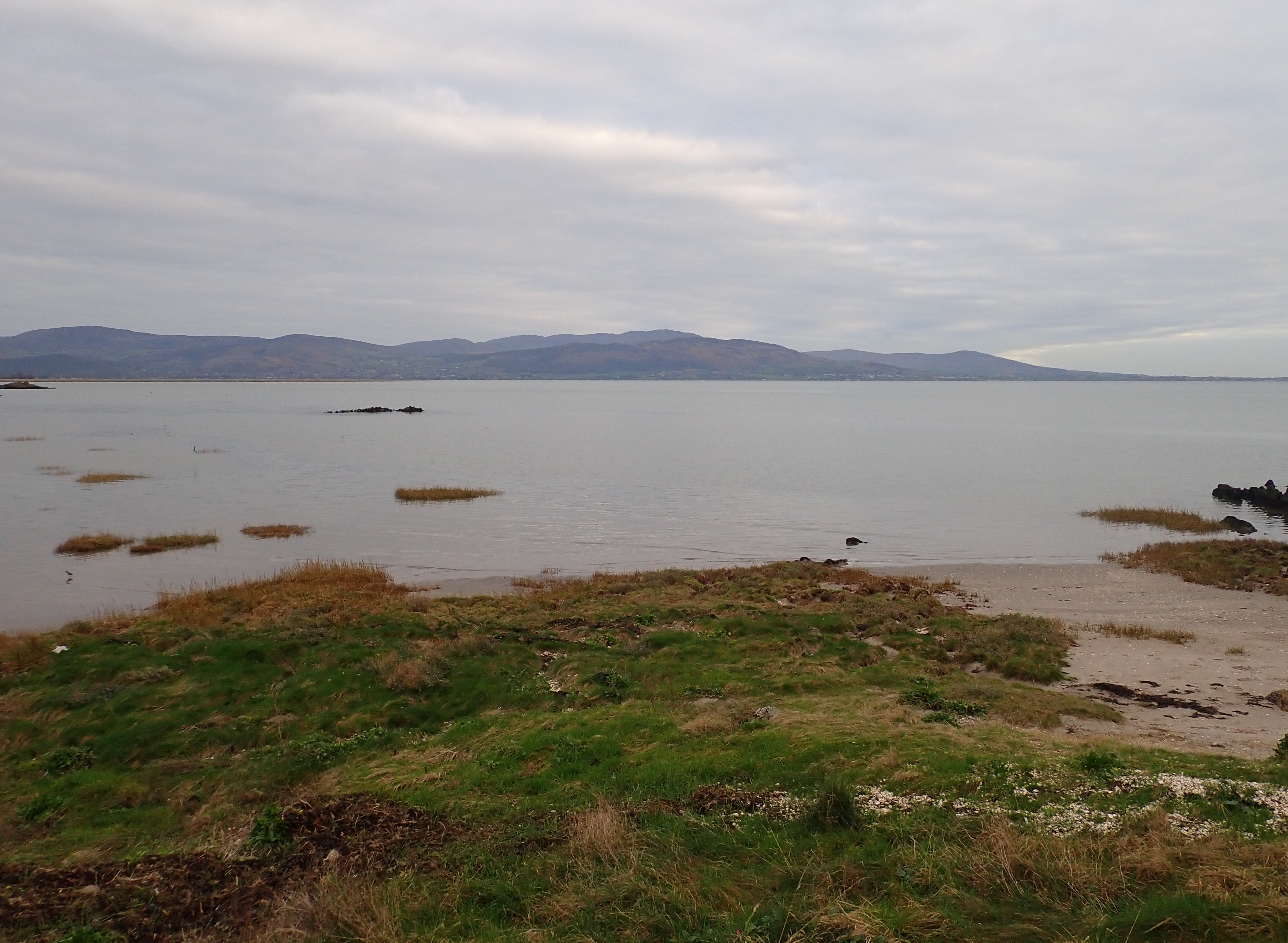 View of the Mountains of the Cooley Peninsula from near the Halpenny Travel Garage